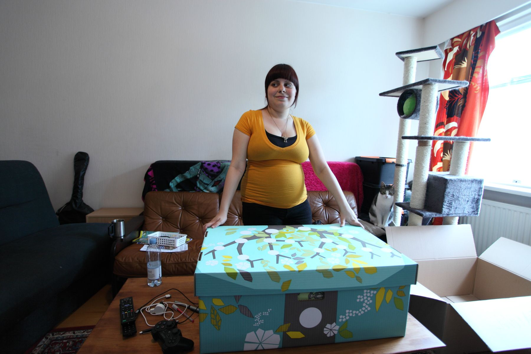 A mother expecting a baby receives the maternity package.